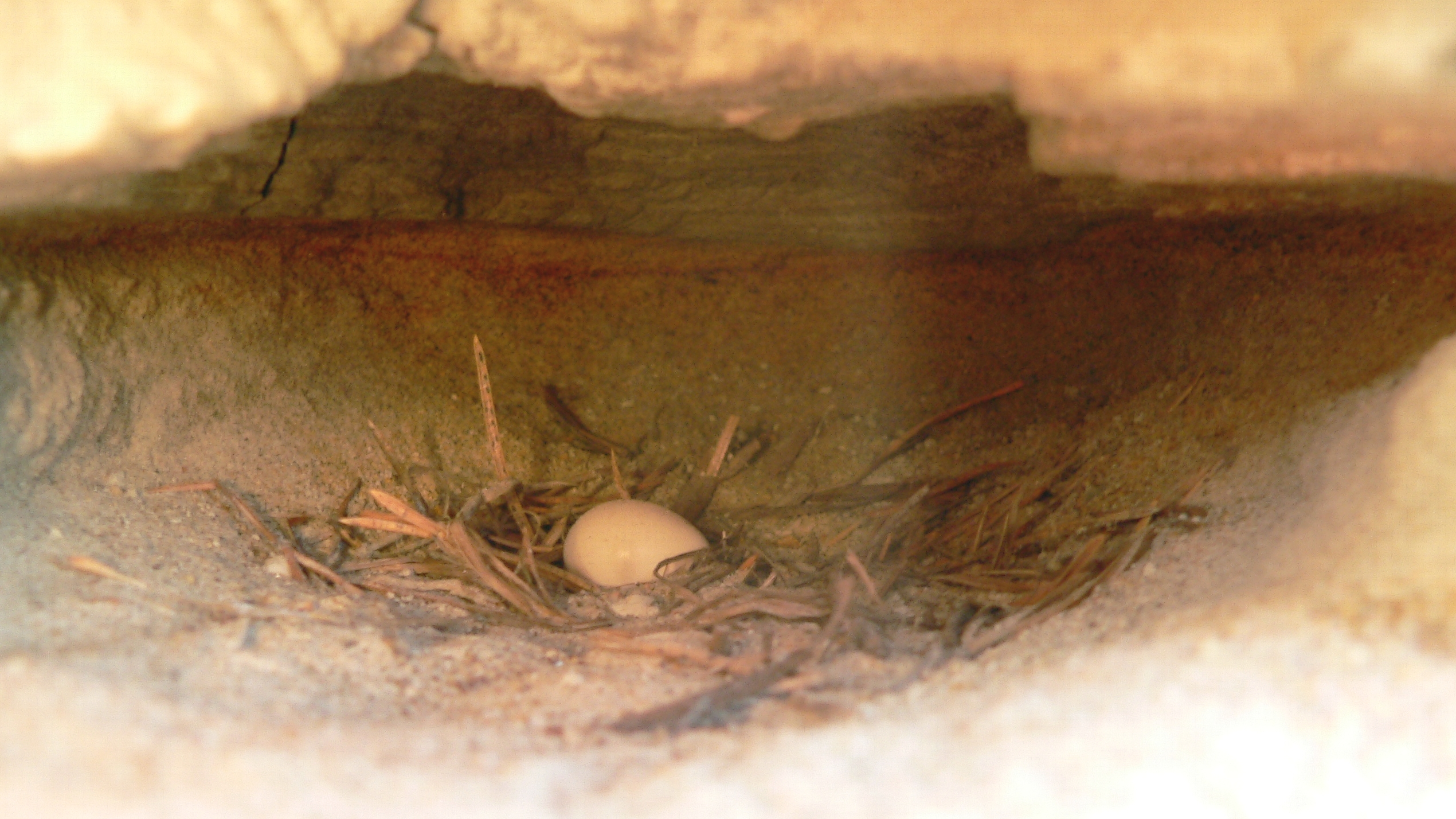 Nest with egg; Sand martin (Riparia riparia)